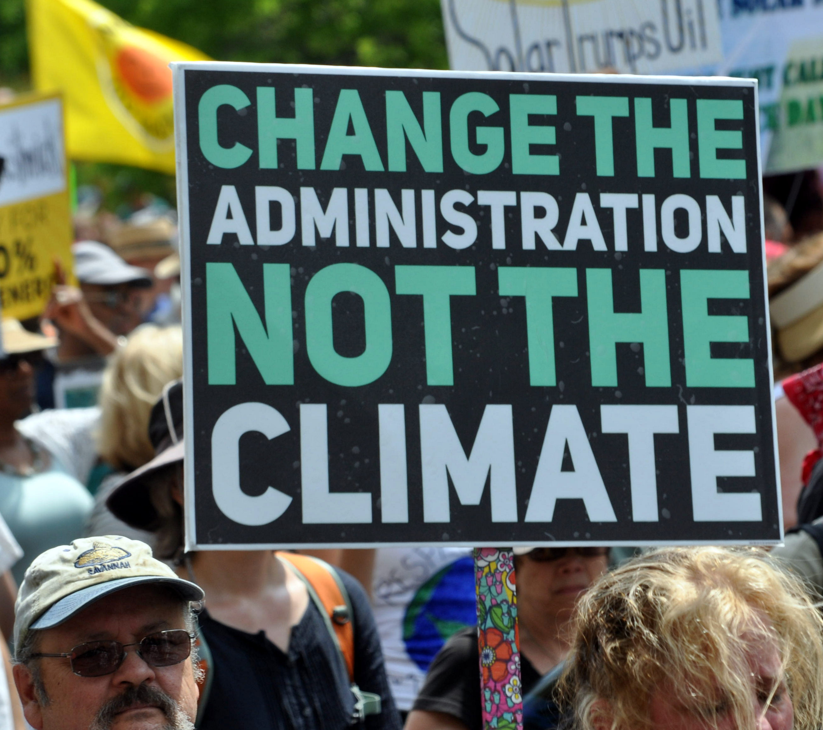 Placard "Change the administration, not the climate", at the People's Climate March 2017.